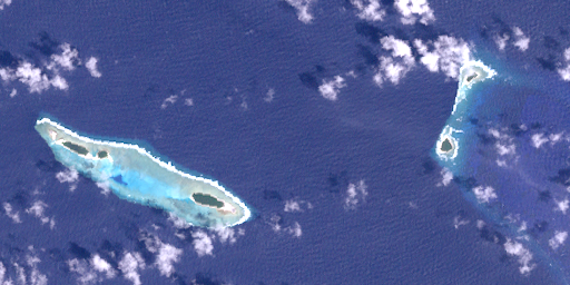 Turtle Islands east of Ulithi Atoll, Yap State, Micronesia, Pacific Ocean. Also the two islands of Zohhoiiyoru Bank are shown on the right.